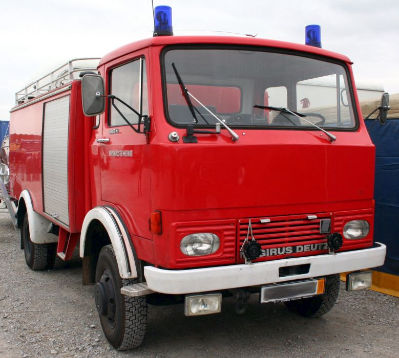 Water tender, manufacturers: Magirus-Deutz